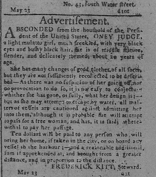 Runaway Advertisement for Oney Judge, enslaved servant in George Washington's presidential household. The Pennsylvania Gazette, Philadelphia, Pennsylvania, May 24, 1796. "Advertisement. ABSCONDED from the houshold [sic] of the President of the United States, ONEY JUDGE, a light mulatto girl, much freckled, with very black eyes and bushy black hair. She is of middle stature, slender, and delicately formed, about 20 years of age. She has many changes of good clothes of all sorts, but they are not sufficiently recollected to be described—As there was no suspicion of her going off, nor no provocation to do so, it is not easy to conjecture whither she has gone, or fully, what her design is;—but as she may attempt to escape by water, all matters of vessels are cautioned against admitting her into them, although it is probable she will attempt to pass as a free woman, and has, it is said, wherewithal to pay her passage. Ten dollars will be paid to any person who will bring her home, if taken in the city, or on board any vessel in the harbour;—and a reasonable additional sum if apprehended at, and brought from a greater distance, and in proportion to the distance. FREDERICK KITT, Steward. May 23 [illegible]."